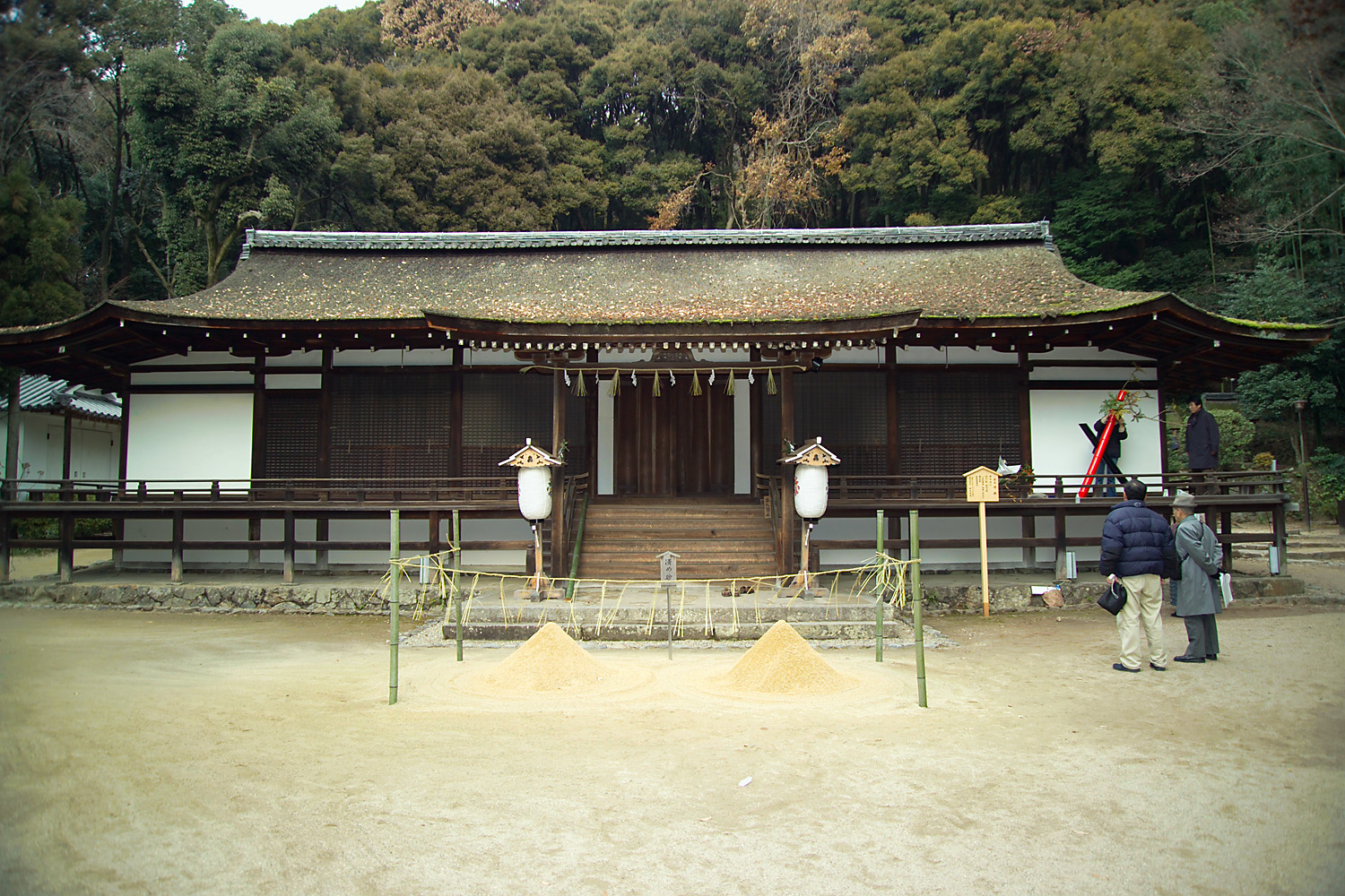 This is the haiden at the Ujigami Jinja, a shrine in the city of Uji, Kyoto prefecture.